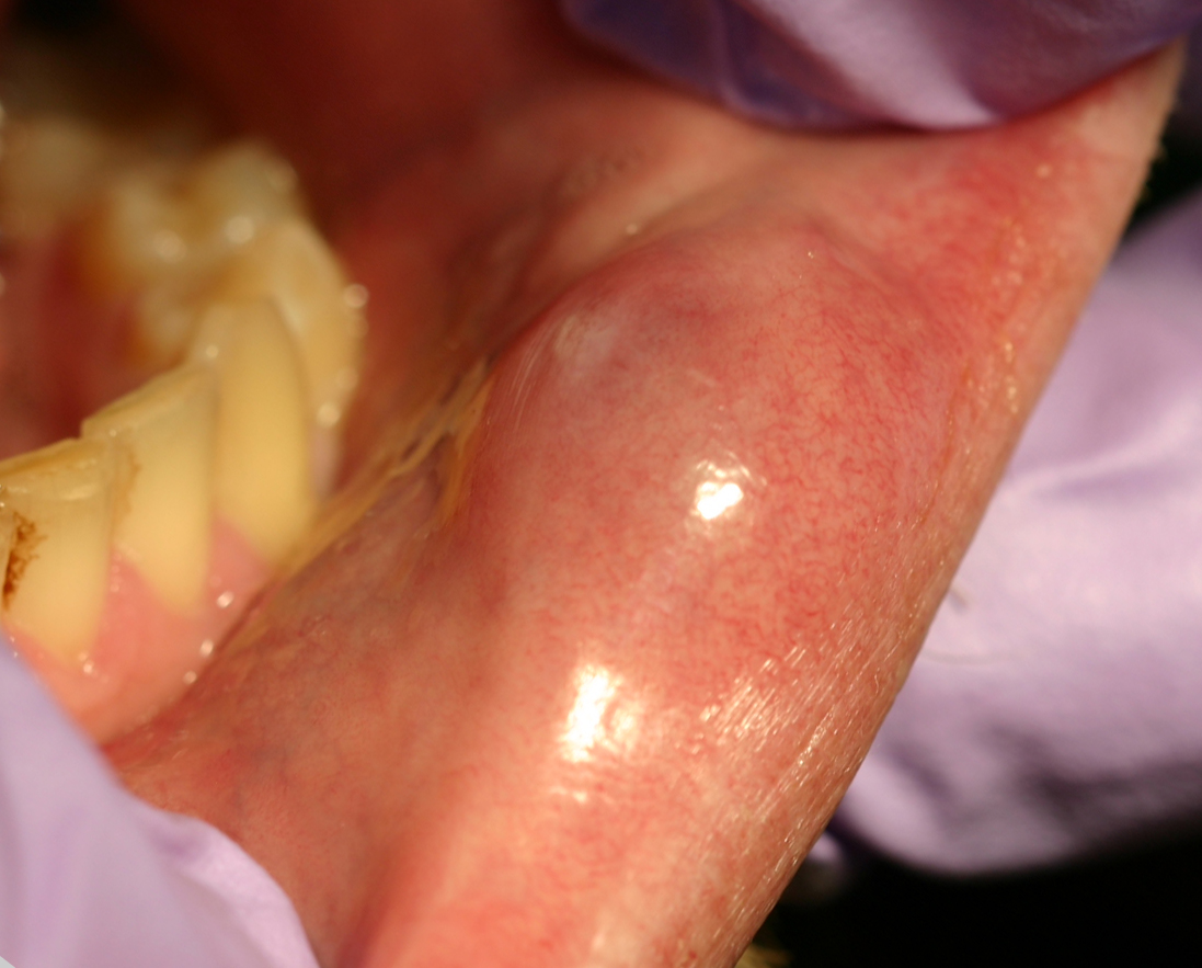 Photo taken of patient, who will remain anonymous, treated at the University of Tennessee Health Science Center: College of Dentistry in Memphis, Tennessee. The lesion is an example of a mucocele on the lower lip. Source: Photo taken by dozenist